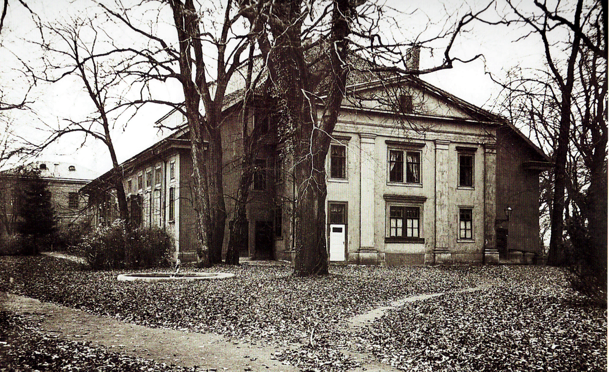 Palace Theatre Sondershausen